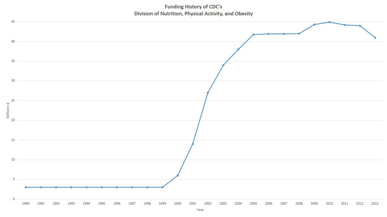 Funding History of the CDC's Division of Nutrition, Physical Activity, and Obesity